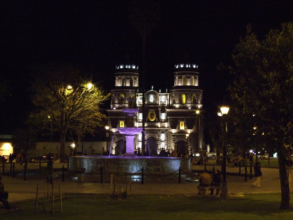 Cajamarca Cathedral from the Plaza